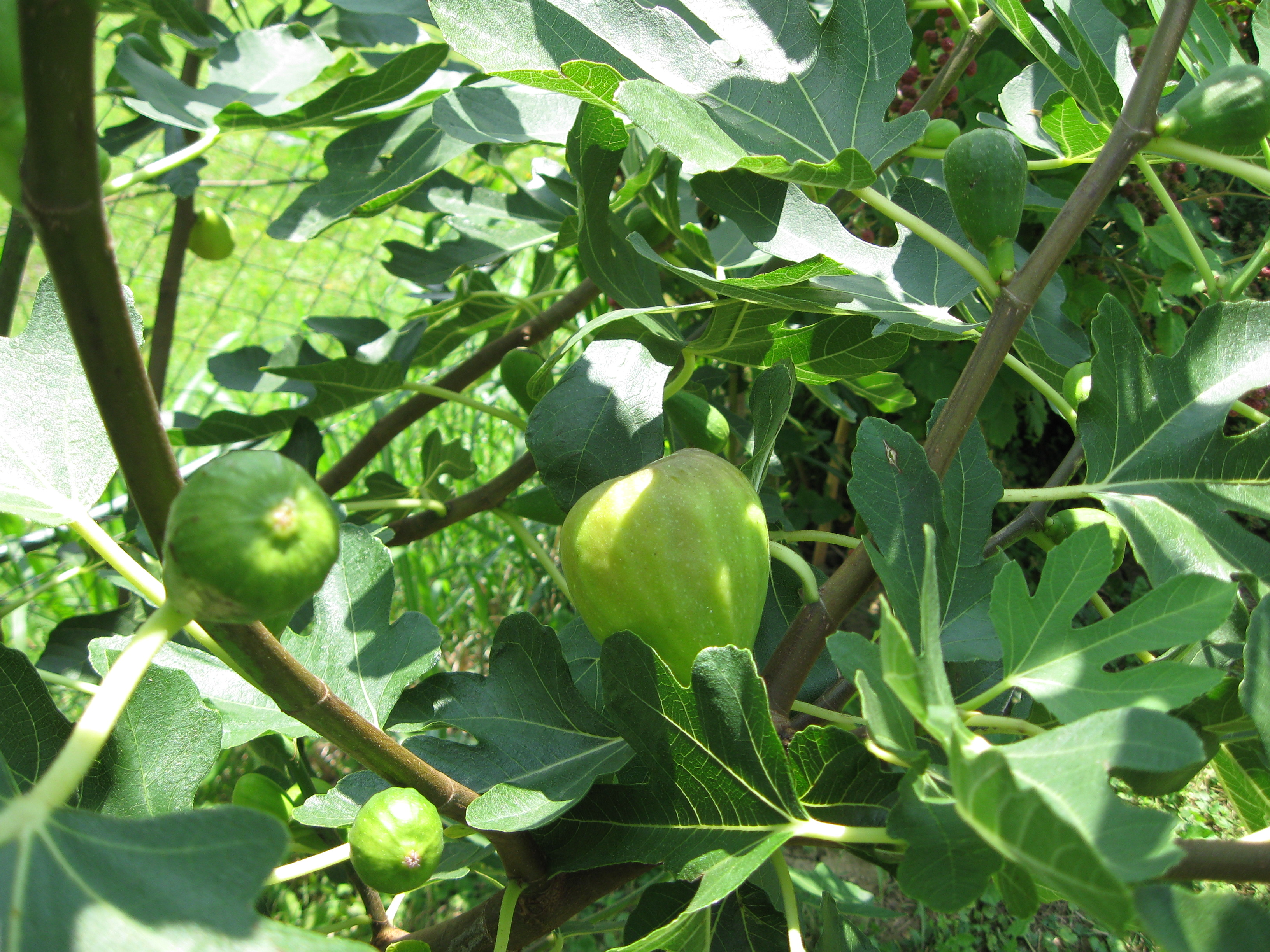 Figs on in-country garden.